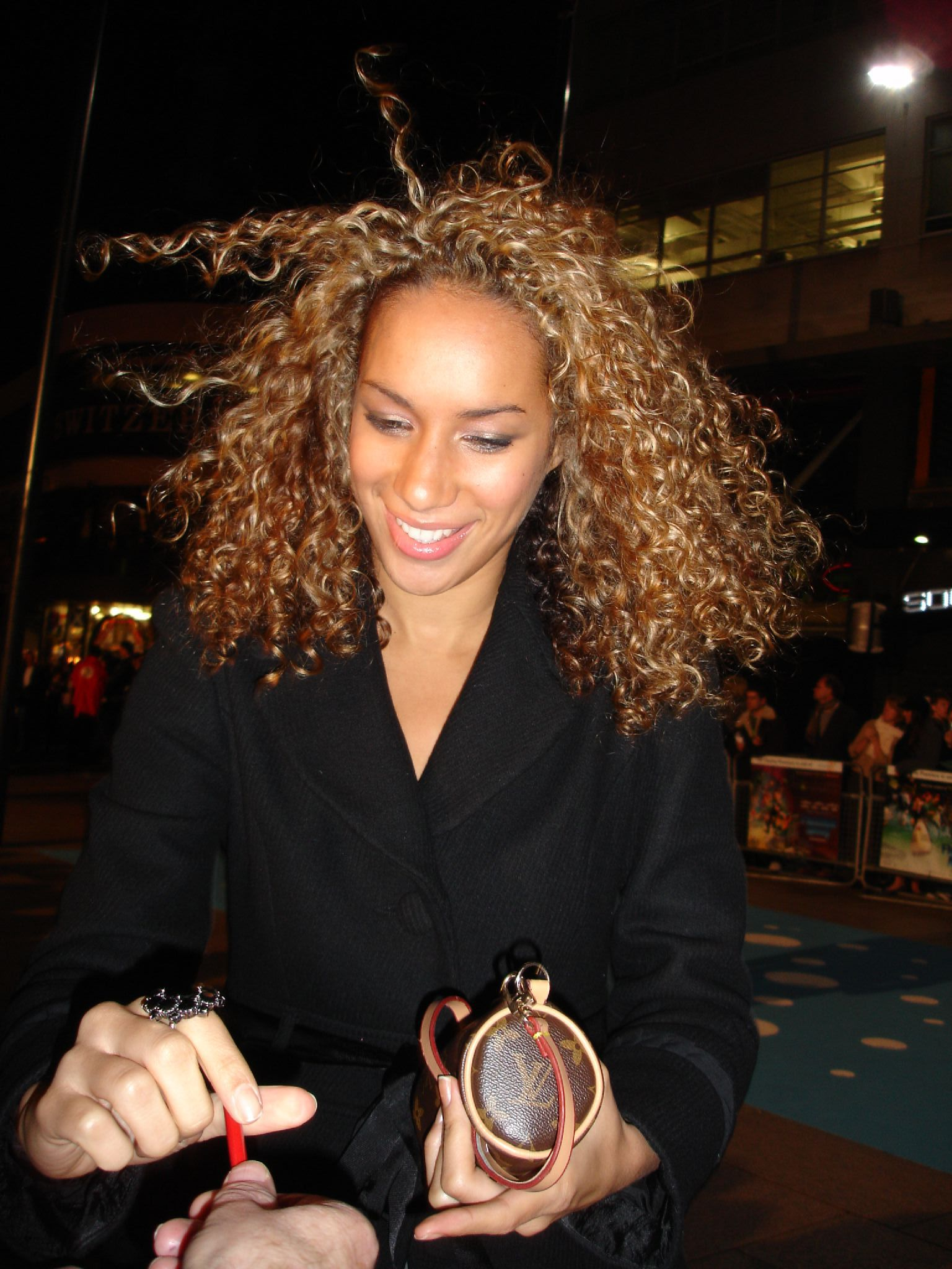 Leona Lewis signs her last autograph before being whisked away for photos at the Flushed Away London premiere.